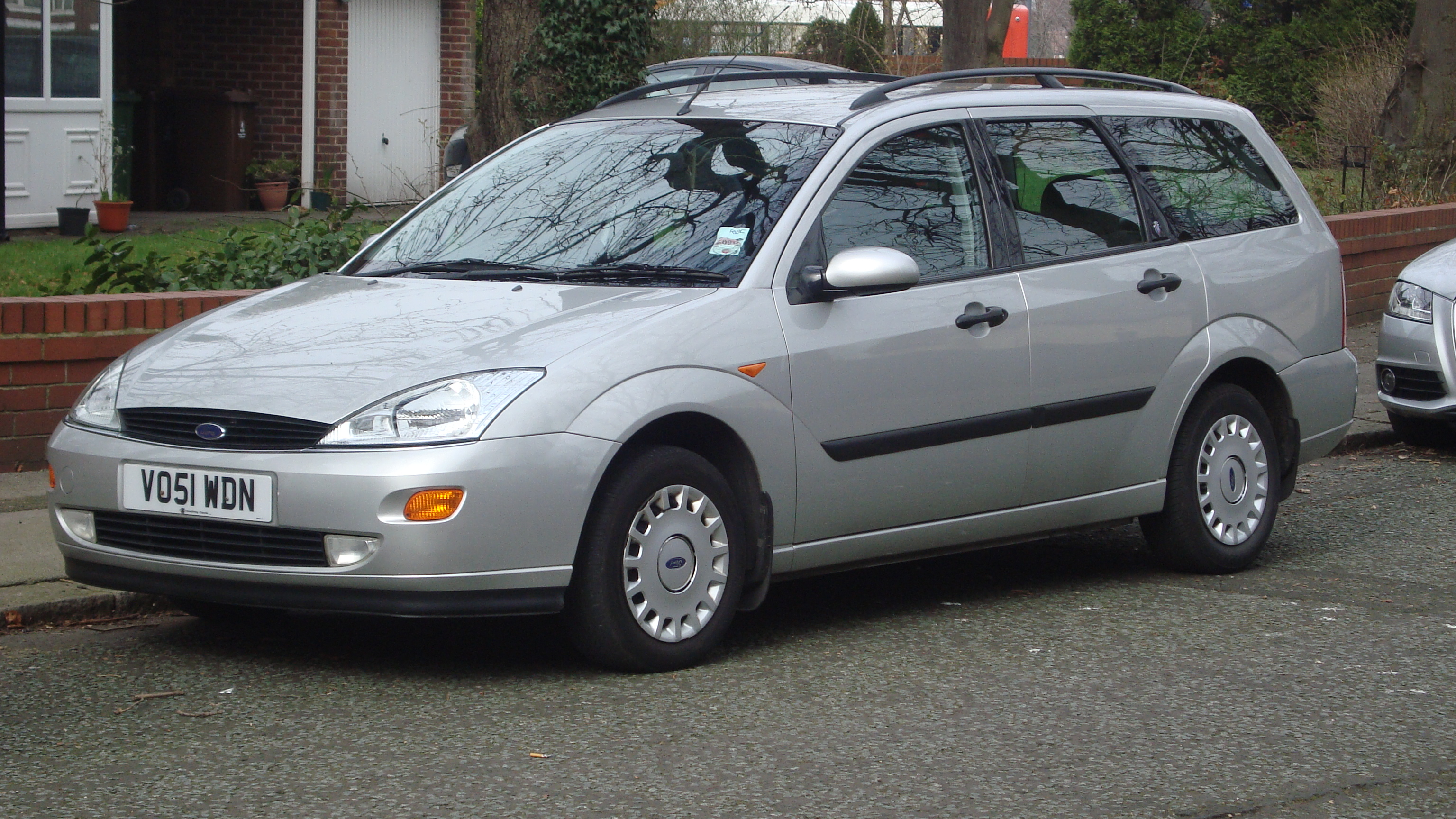 Lives just around the corner from me and is incredibly tidy, it replaced a N reg Astra Estate which was also a very clean car